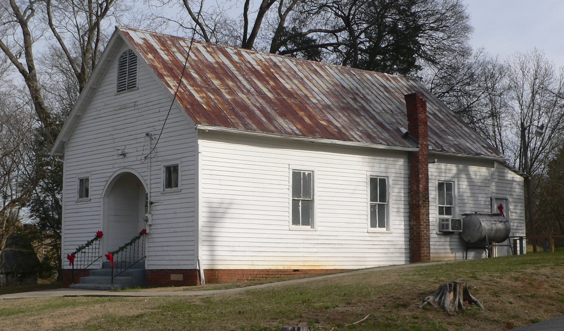 United In Faith Gospel Church, located at 235 E. Meeting Street in Dandridge, Tennessee; seen from the west. The building faces northwest.